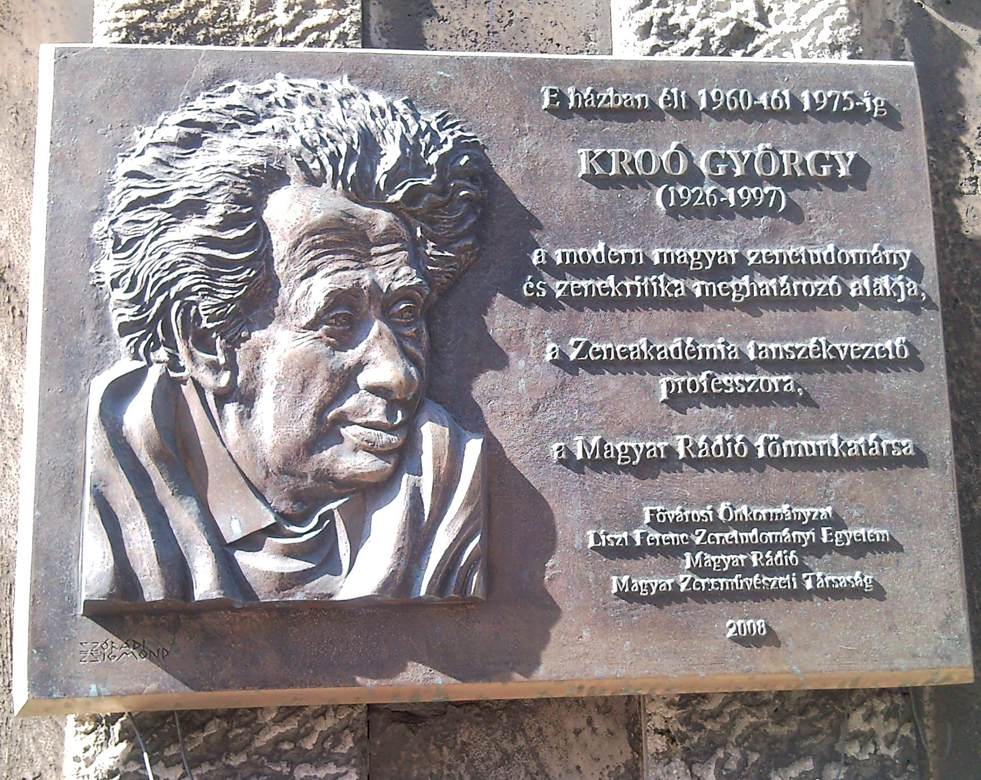 György Kroó commemorative plaque with relief in Budapest District I, Várfok Street No 15/b. Creator: Zsigmond Szórádi.